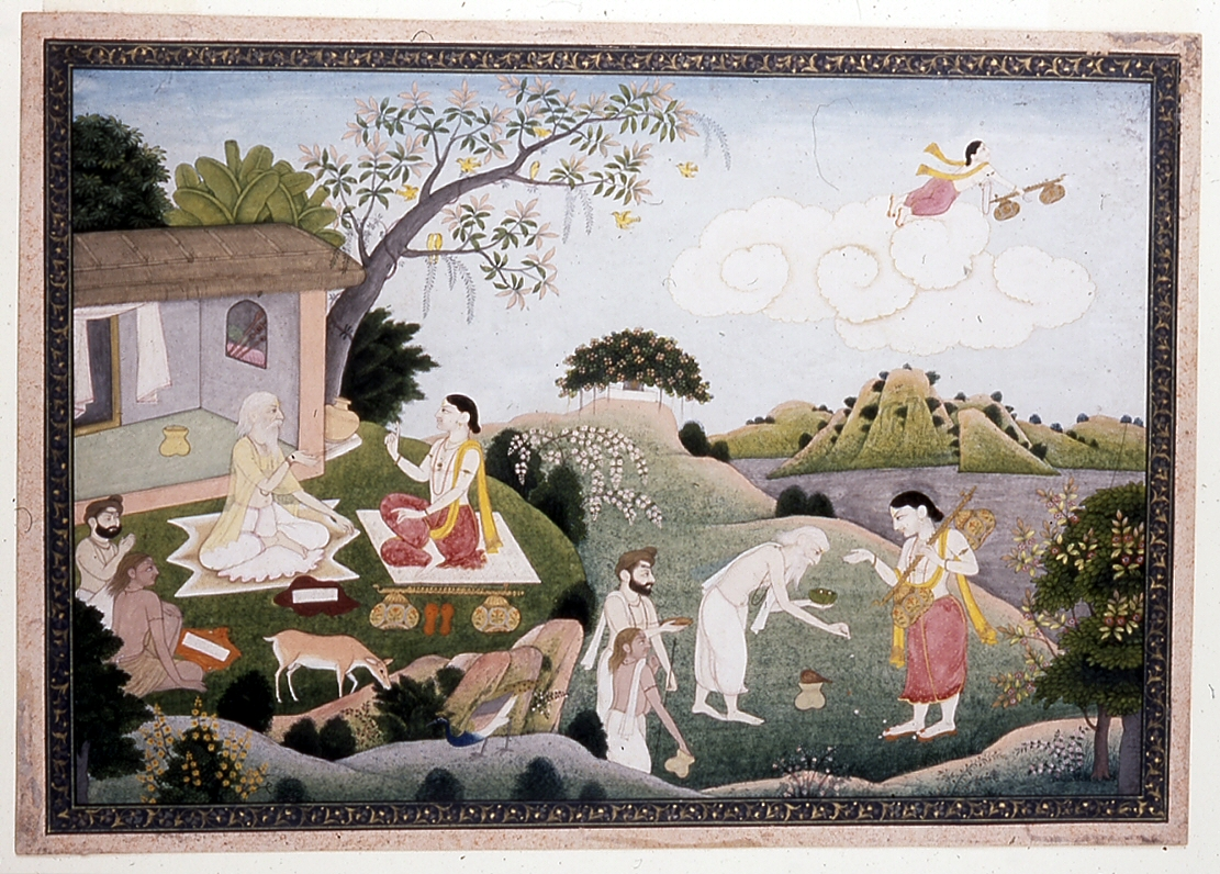 "Episodes from the Ramayana: This picture depicts a hermitage ("asrama") in a bucolic setting that matches the rich poetic descriptions of the text. On the left, the youthful divine messenger Narada, with golden "vina" beside him, is seated in conversation with the elderly bearded Valmiki, whose purity is conveyed by his whiteness. A thatched hut forms the background, and a deer and a peacock convey the tranquil atmosphere of the hermitage. Then, in accordance with the continuous mode of narration (despite the influence of European painterly traditions), we are shown the scene of farewell on the right and, finally, Narada floating off to the celestial regions on clouds. It is generally considered that this series may have been painted for Samsar Chand (r. 1775-1823) of Kangra, who was an avid patron of artists."